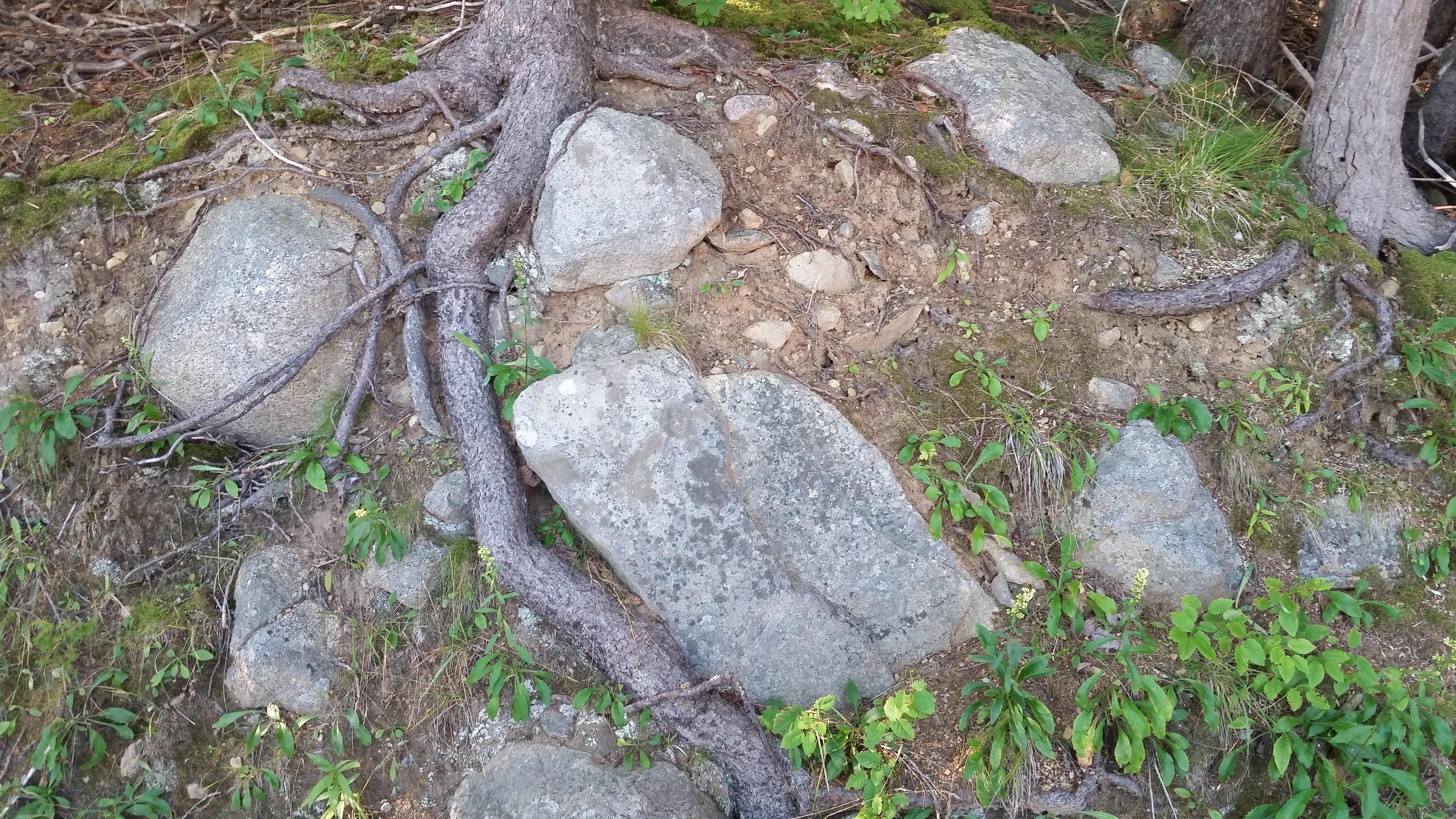 Cape Breton HIghlands National Park Freshwater Lake glacial debris